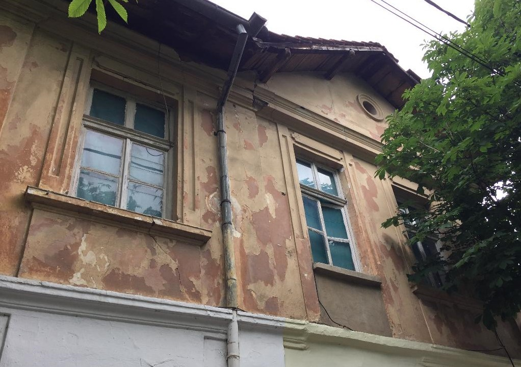 Вила Цакић у Врањској Бањи, фотографија из 2016. године